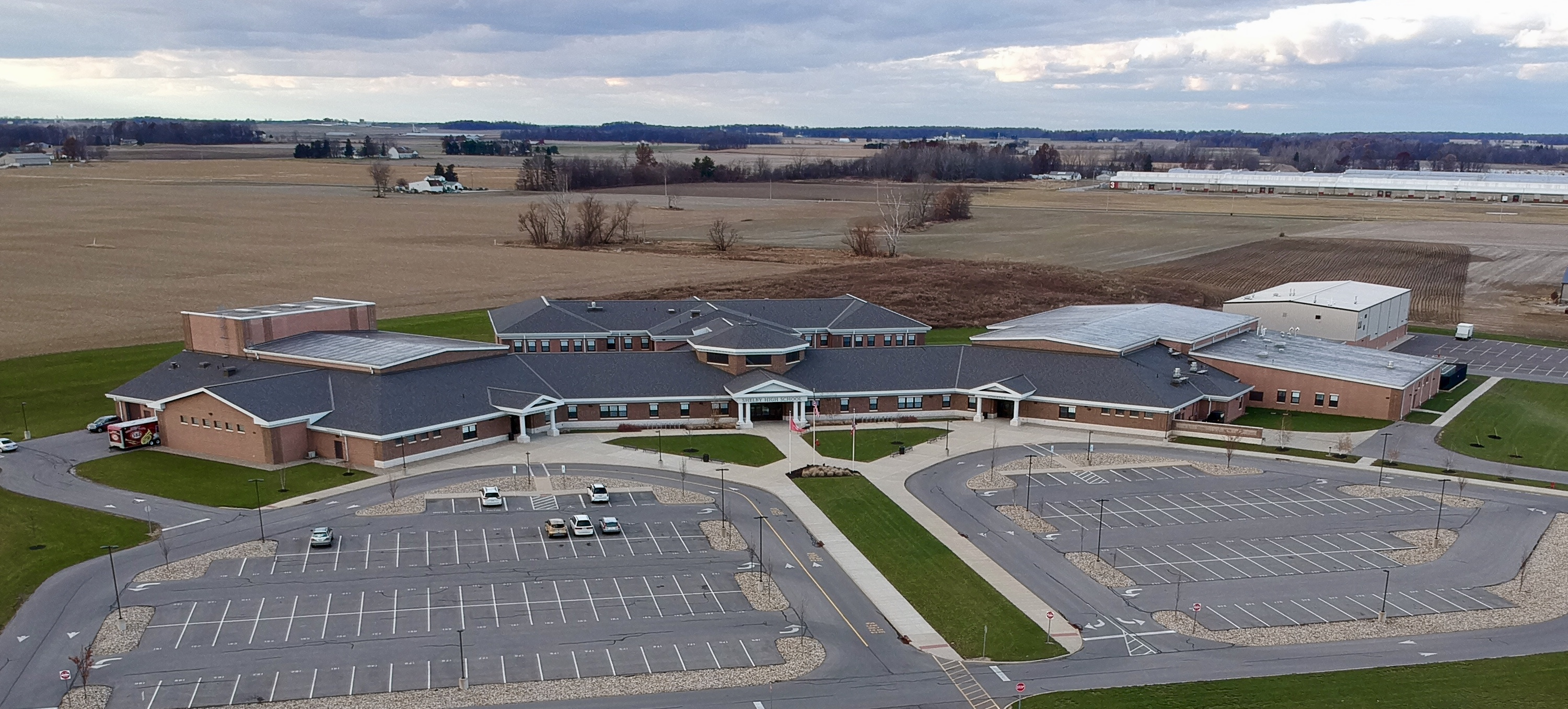 This is the new Shelby High School in Shelby, Ohio. It was completed in 2013.